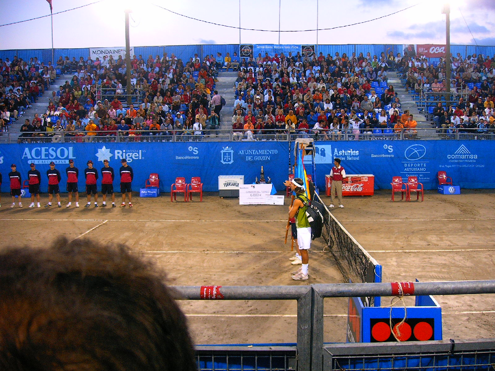 Feliciano López, before the final of the 2005 Torneo Tenis Playa in Luanco.